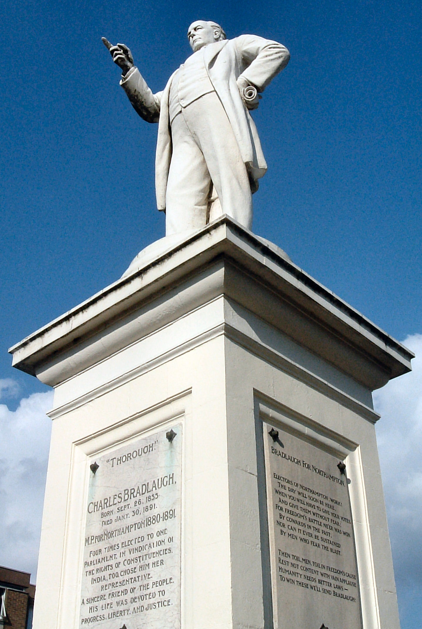 Abington Square, Northampton, England. Statue of Nothampton MP Charles Bradlaugh.